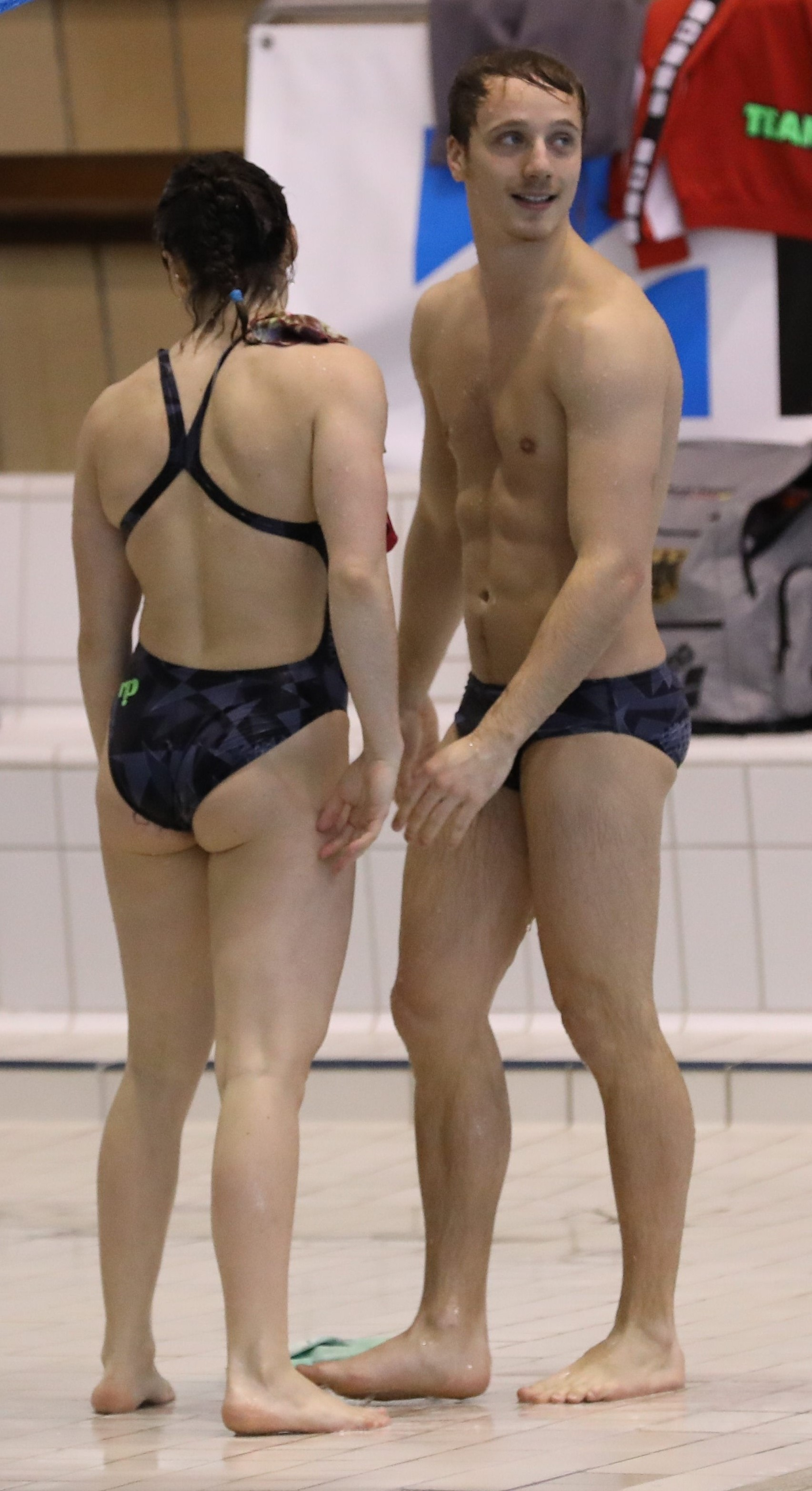 3m mixed synchronized finals at International German Diving Championships Rostock 2018